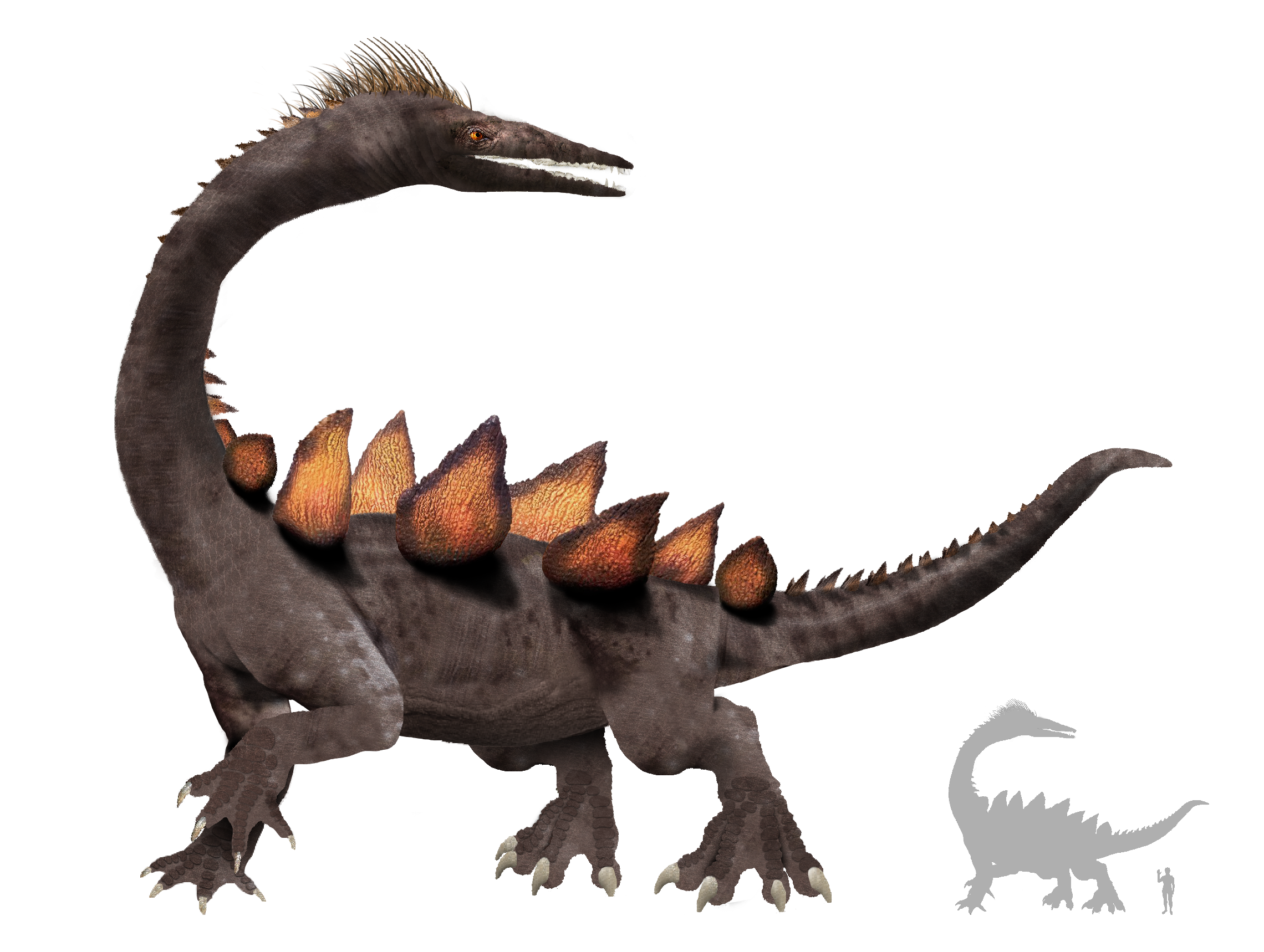 Nguma-monene artist's impression